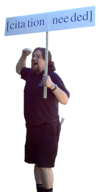 A "wikipedian protester" holding a "[citation needed]" sign, from a Cambridge, Mass. xkcd picnic, held 23 September 2007. Inspired by this xkcd comic.